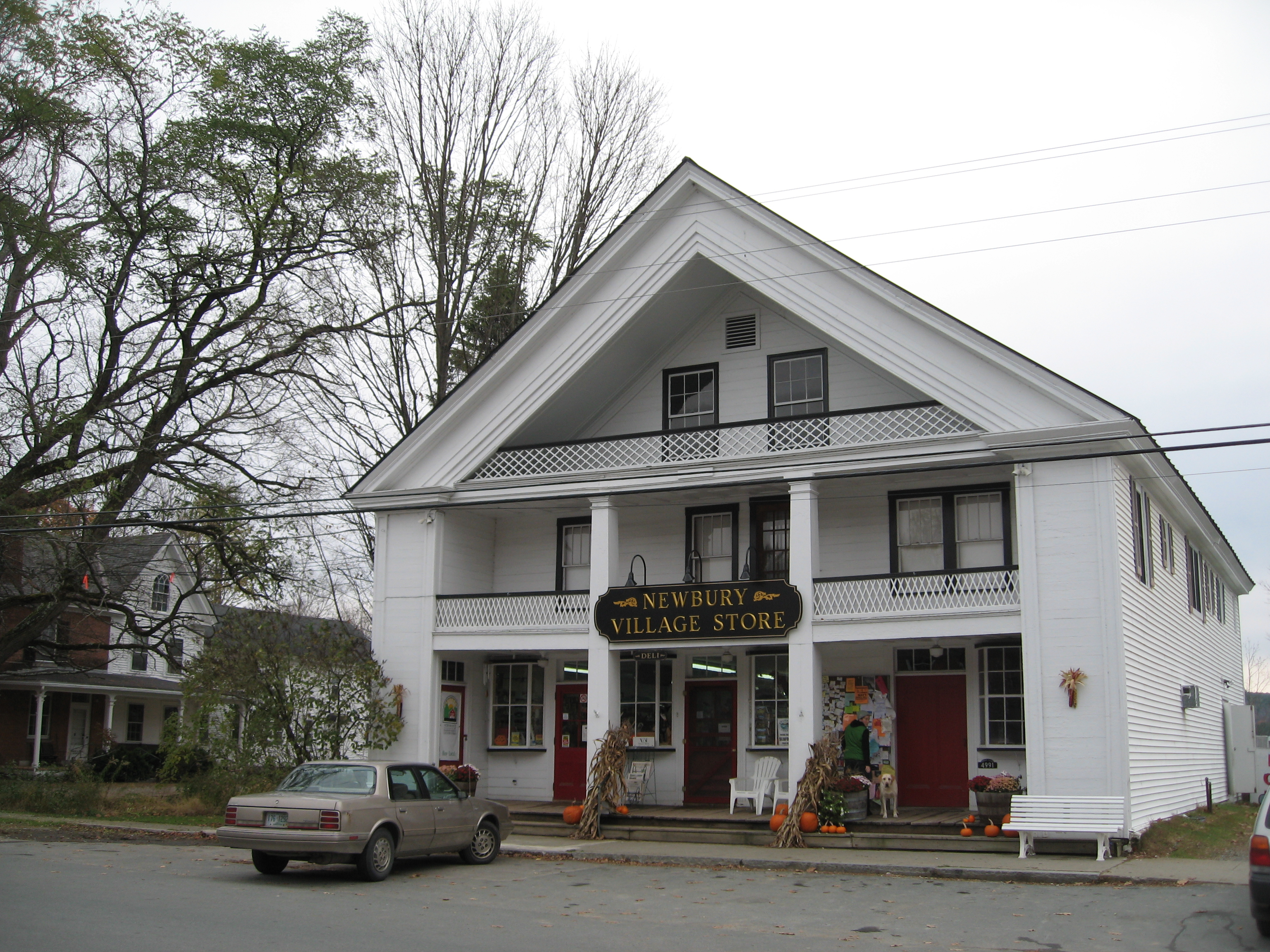 Newbury Village Store, Newbury, Vermont. Part of the Newbury Village Historic District.